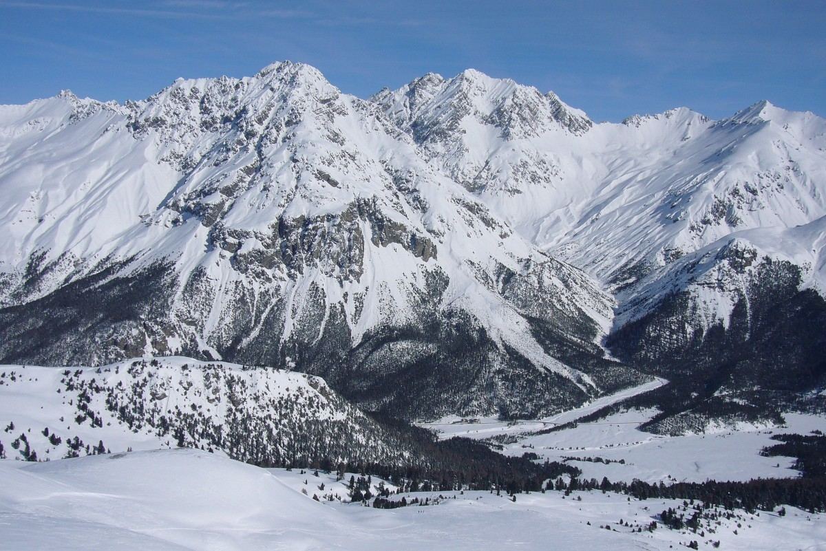 Swiss National Park peak Piz Nair 3010m western view